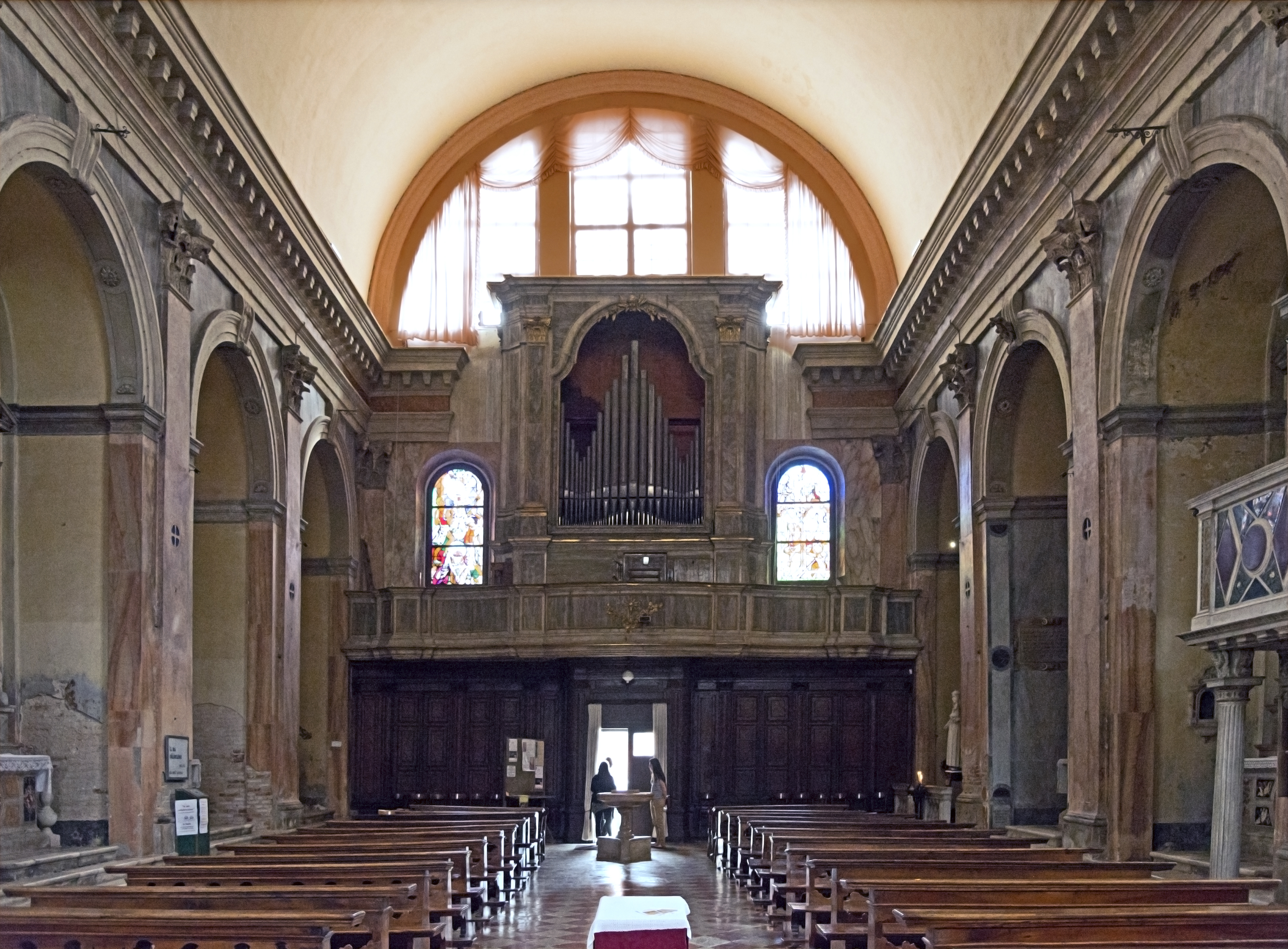 San Trovaso Venice. Interior, organ, by Gaetano Callido in 1765 (Op 16-17).